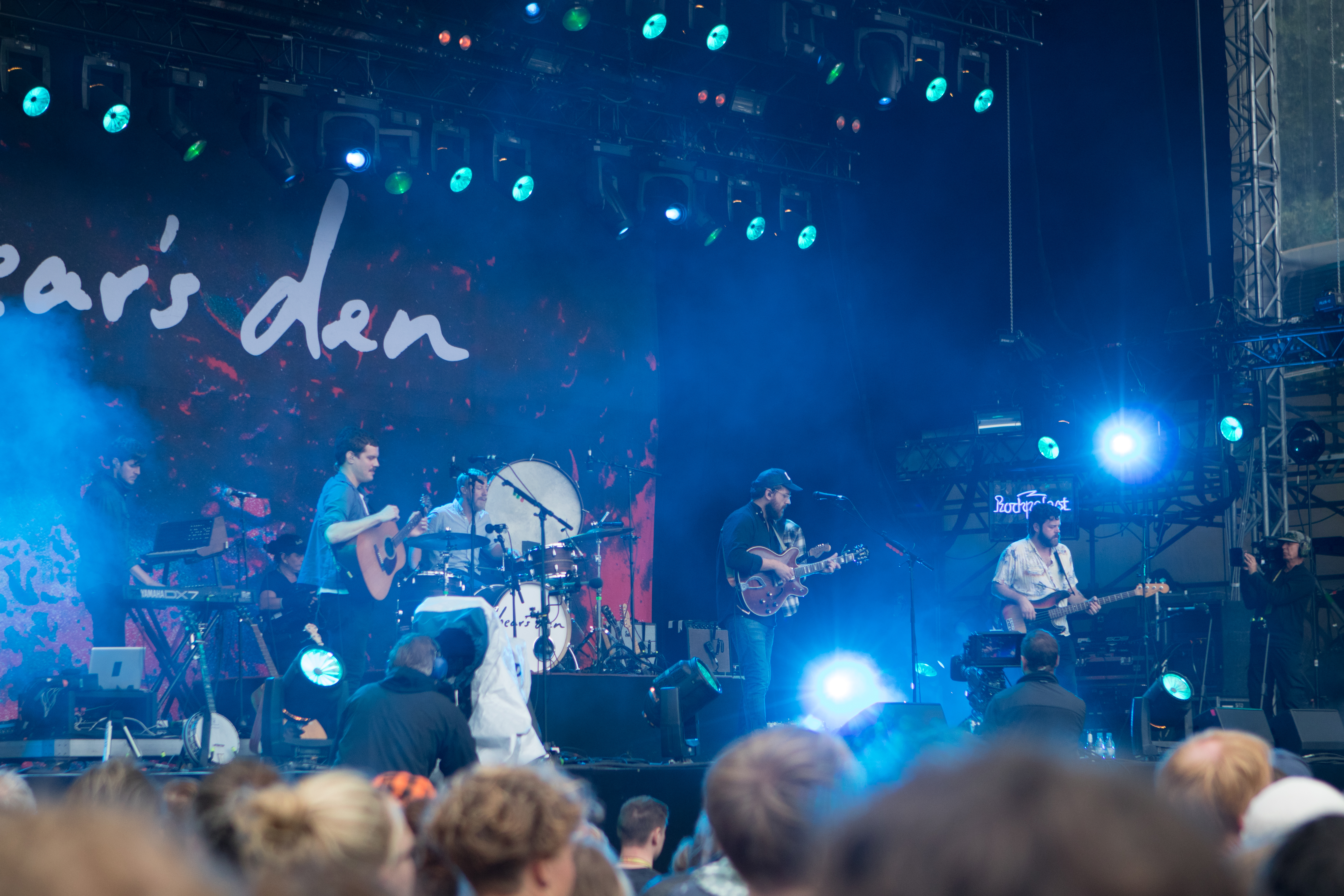 Bear's Den at Haldern Pop Festival 2017